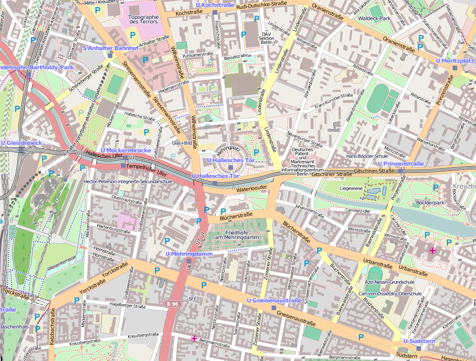 Kreuzberg 61